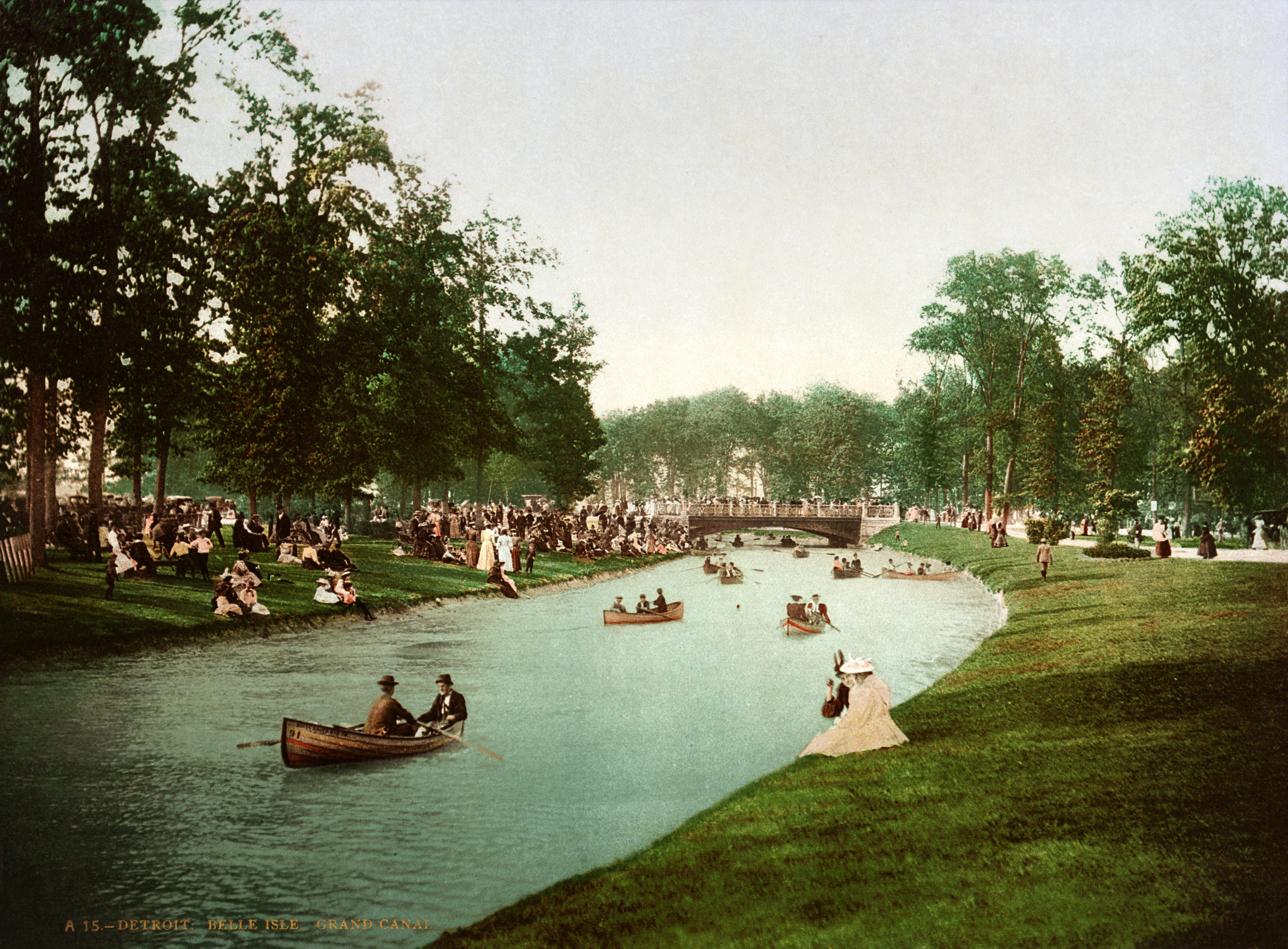 Belle Isle, Grand Canal, Detroit, Michigan. 1 photomechanical print : photochrom, color.